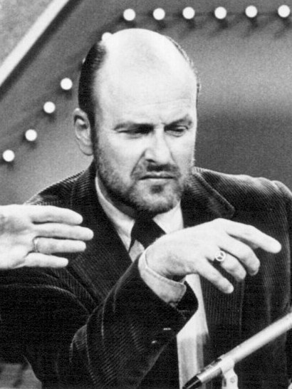 Photo of Werner Klemperer on the television game show Password. Klemperer was one of the two celebrity players for that week.